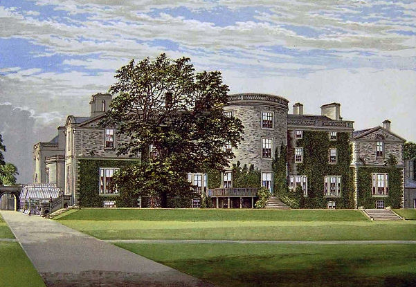 Lithograph printed in colours of Galloway House, Garlieston, Dumfries & Galloway, Scotland